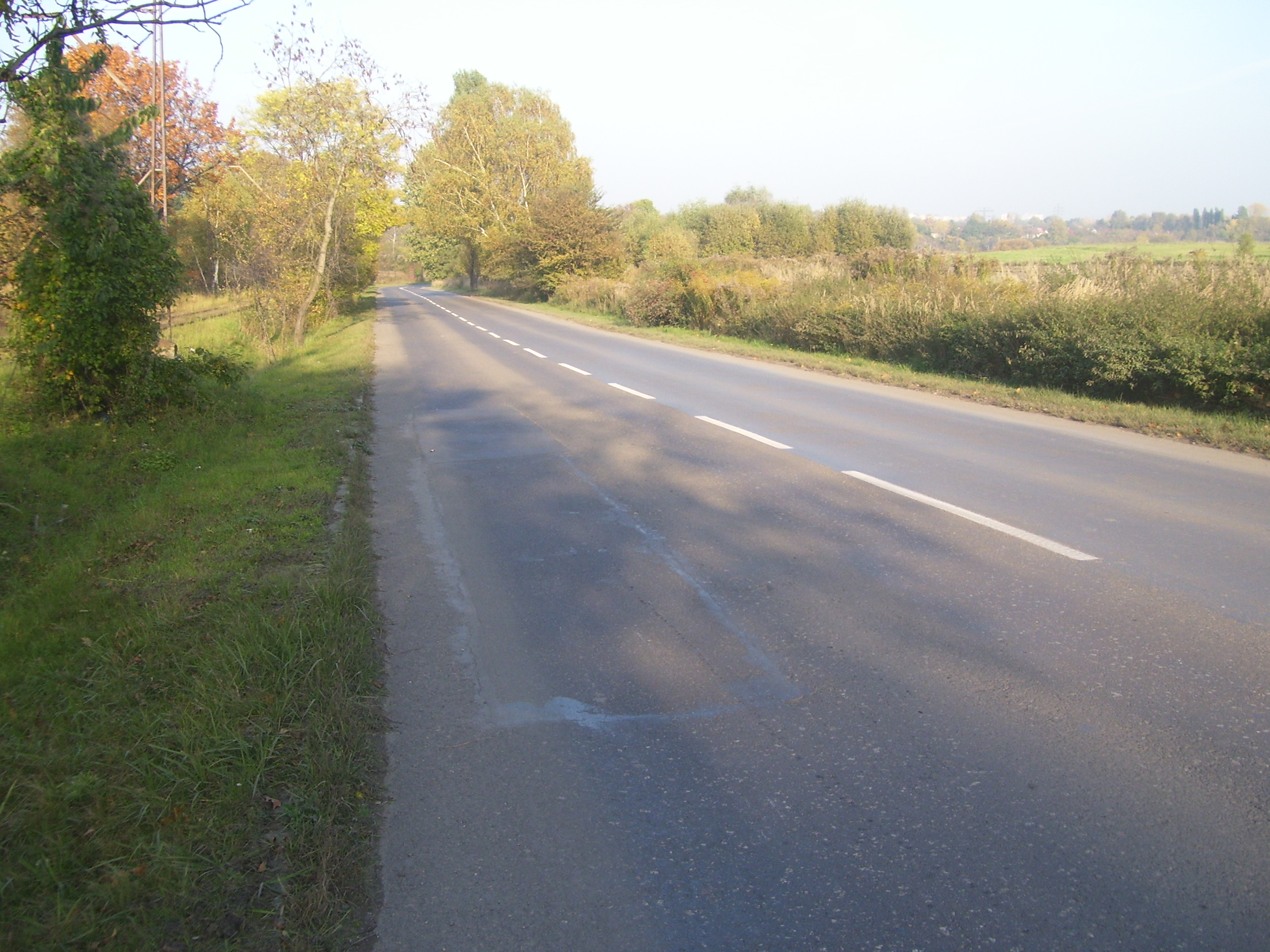 Bytomska Street in Zabrze